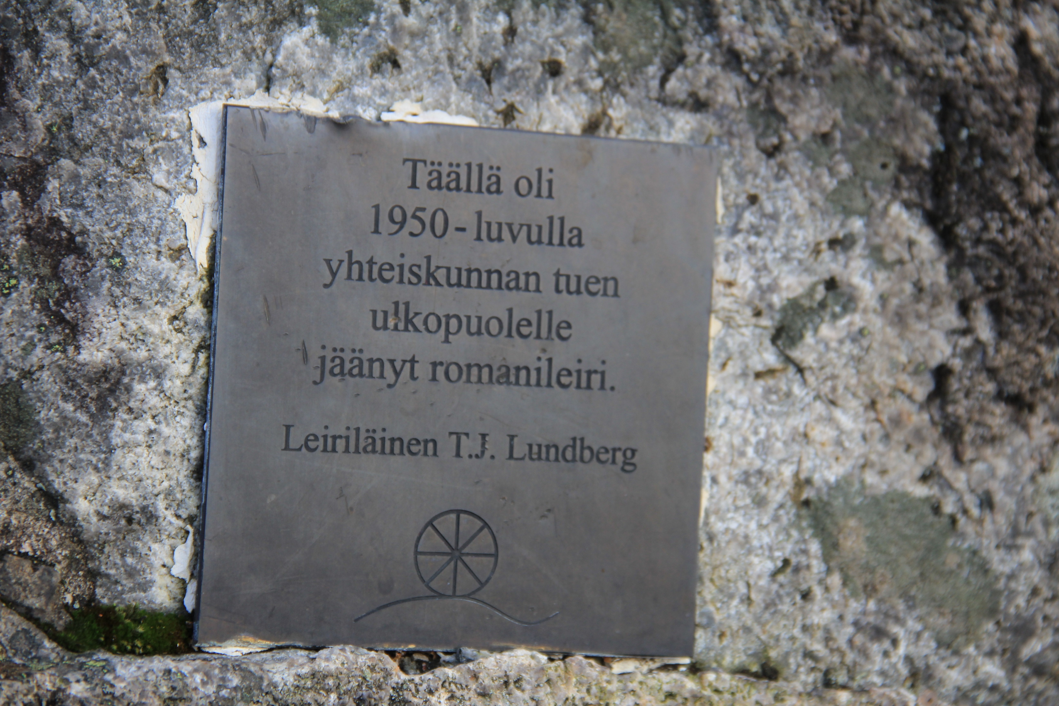 Memorial plaque of Romani peoples' camp in 1950s Mäkkylänmetsä, Leppävaara, Espoo, Finland.